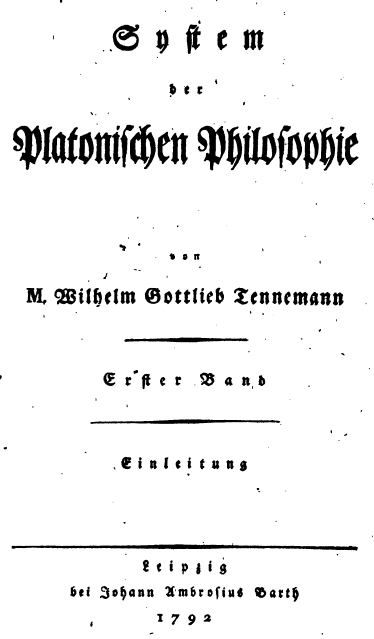 Tennemann, System of Platonic Philosophy, 1792, title page